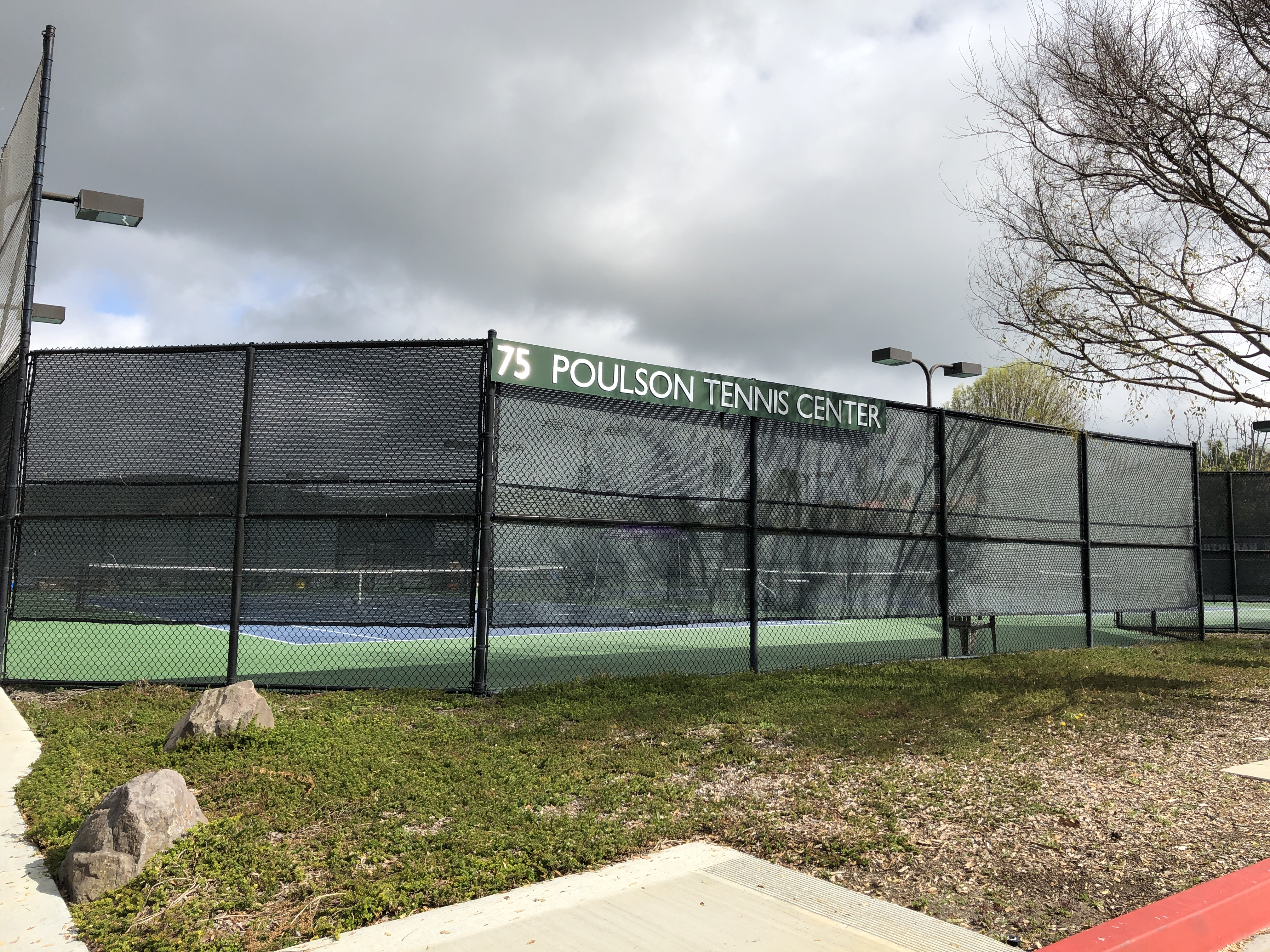 Poulson Tennis Center at California Lutheran University.